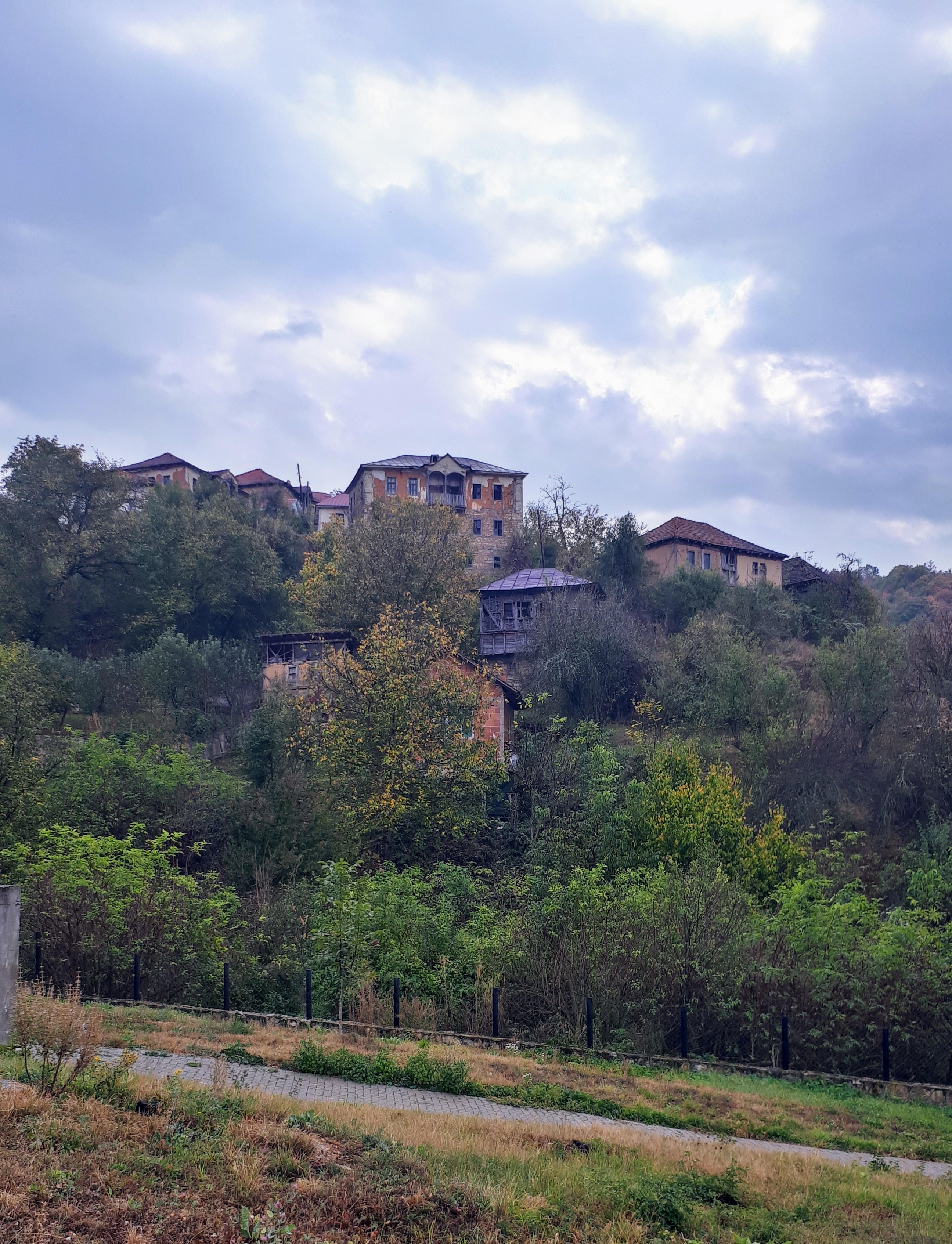 Houses in the village Kladnik